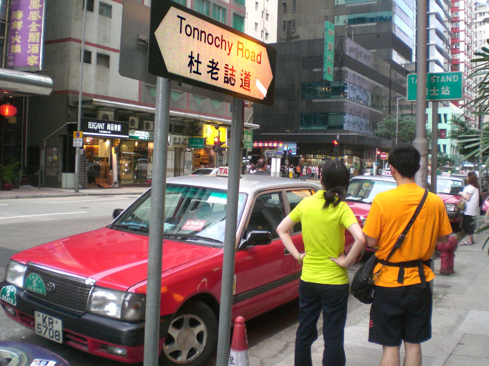 中文（香港）: 的士站 @ 杜老誌道, Taxis station at Tonnochy Road, Wan Chai, Hong Kong.